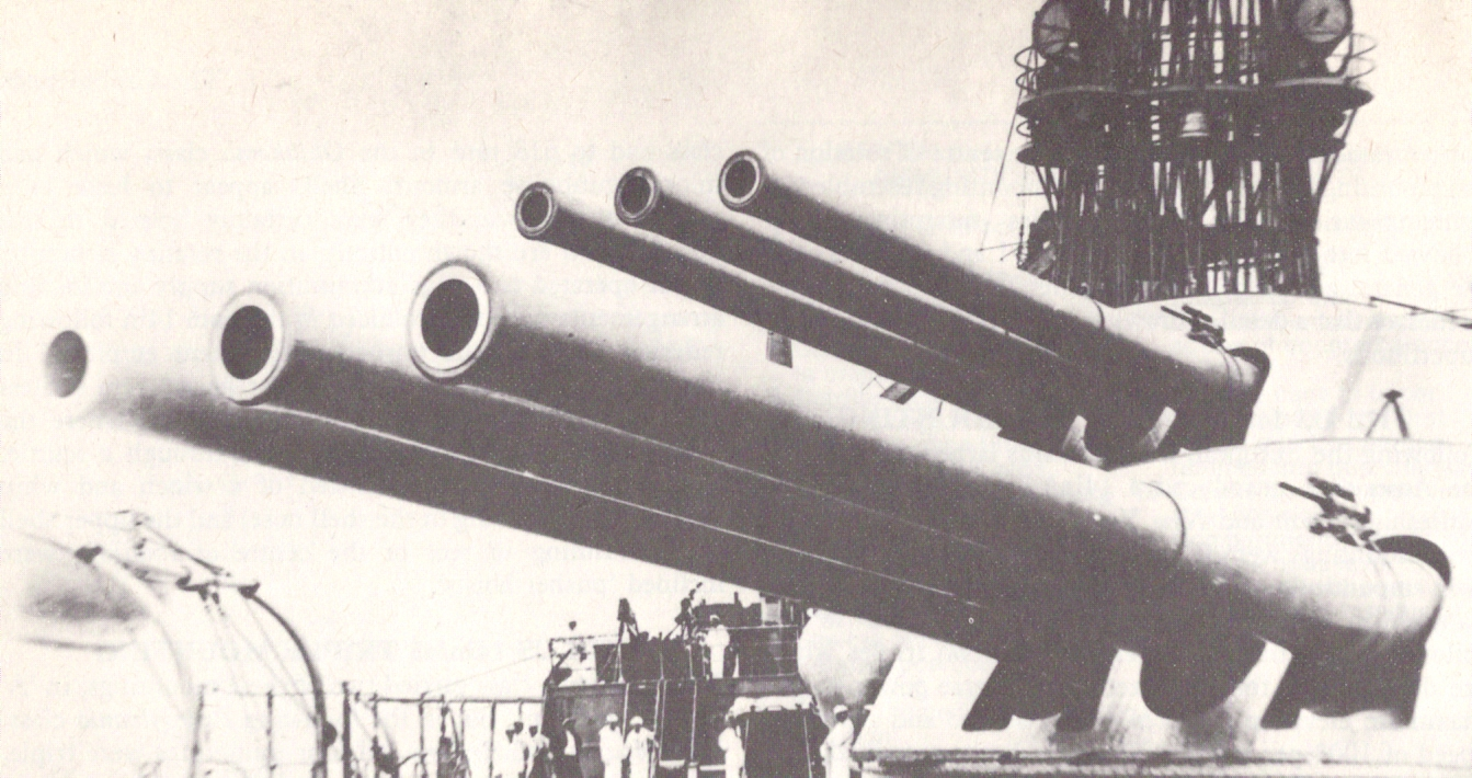 The after triple gun turrets of the United States Navy battleship early in her career